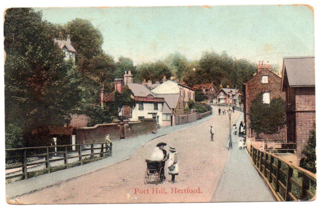 Port Hill, Hertford (Old Postcard)